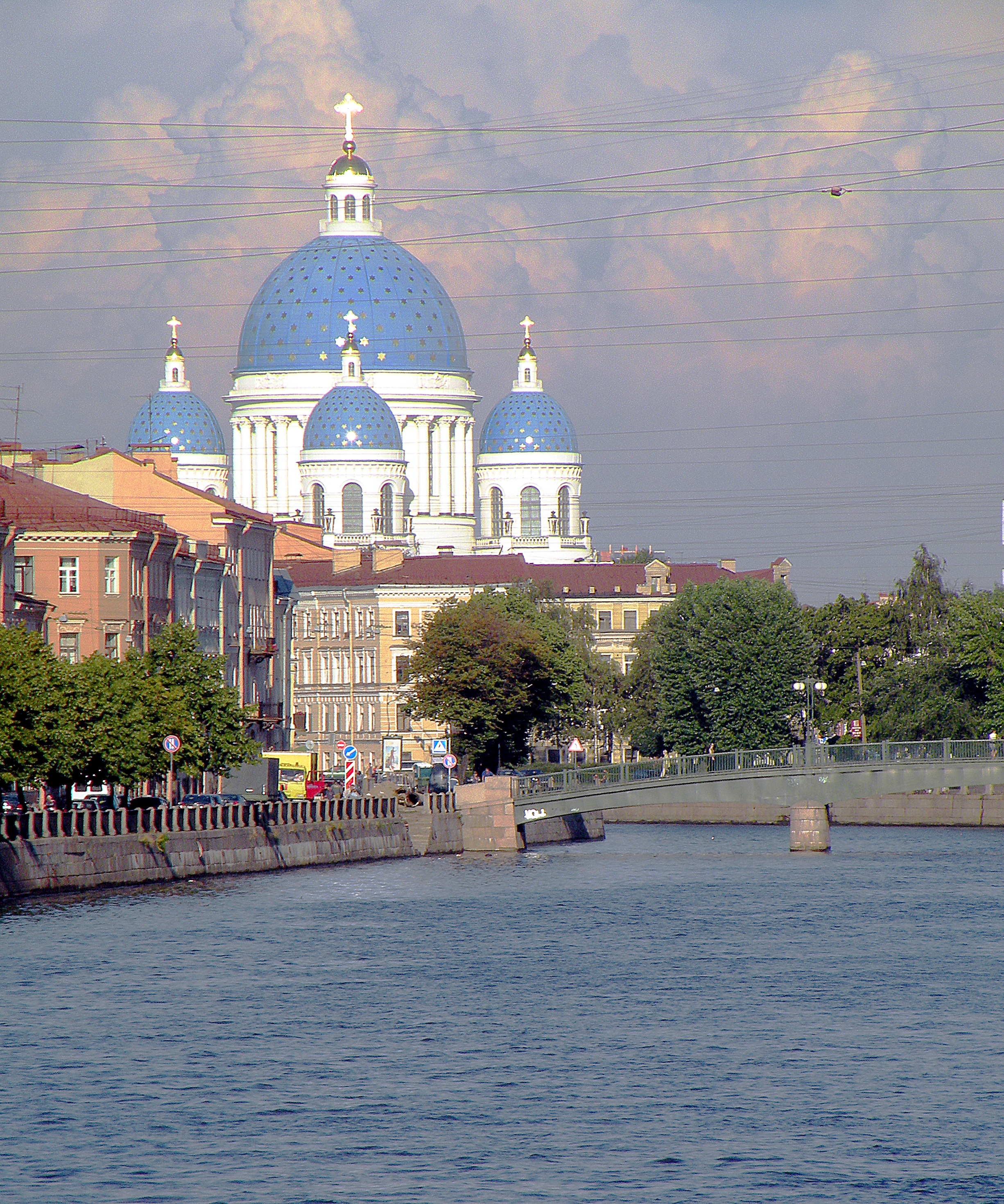 Trinity kathedral in Saint-Petersburg from Alarchin bridge.